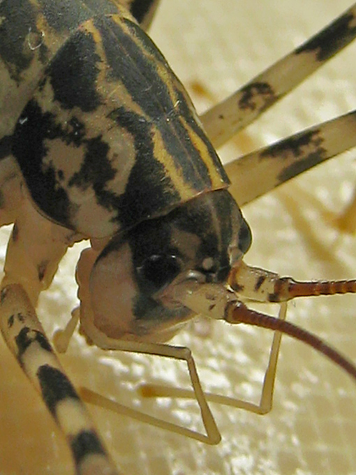 Head of KAMADOUMA